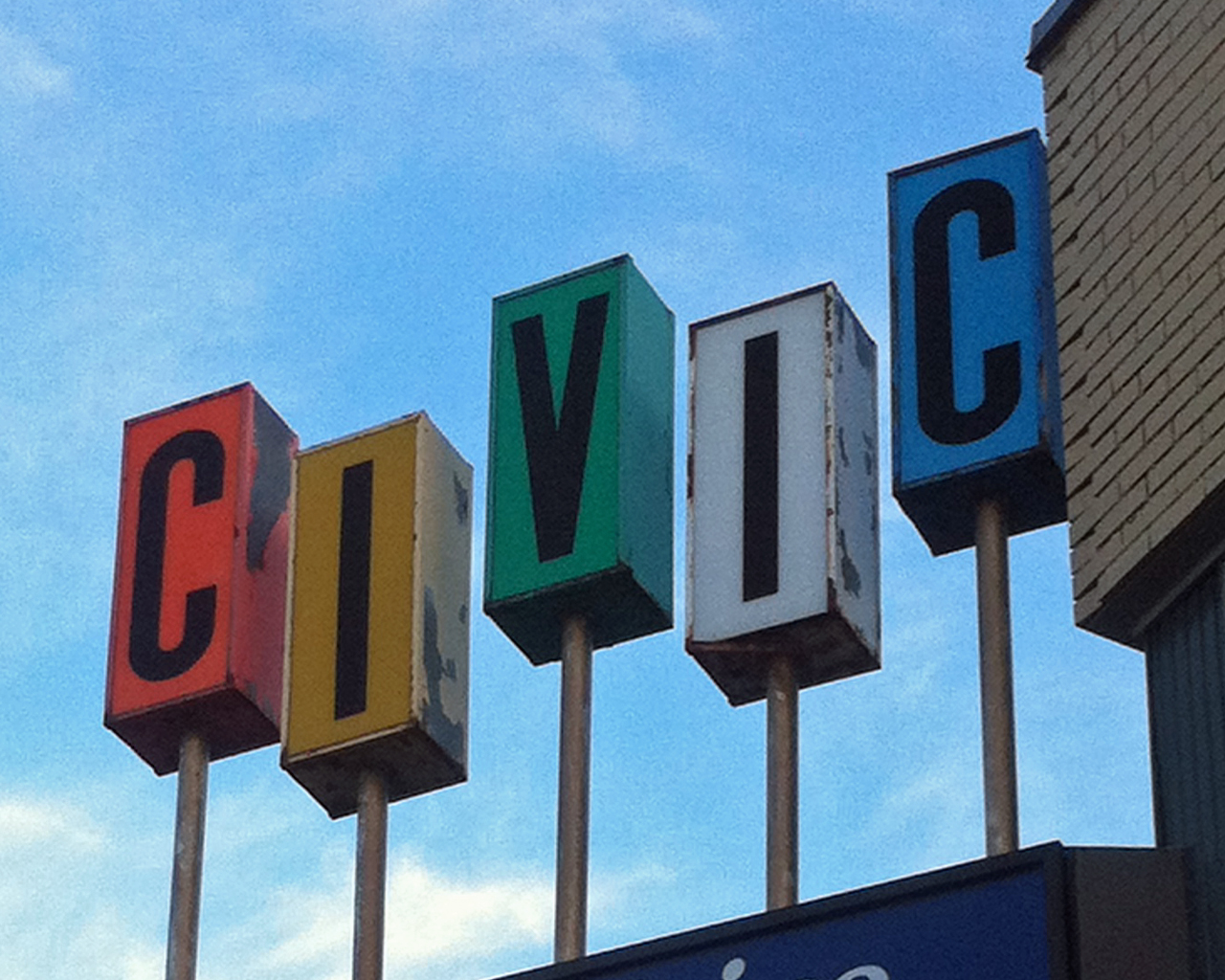 The Googie-inspired Civic Pharmacy Building sign in Ottawa